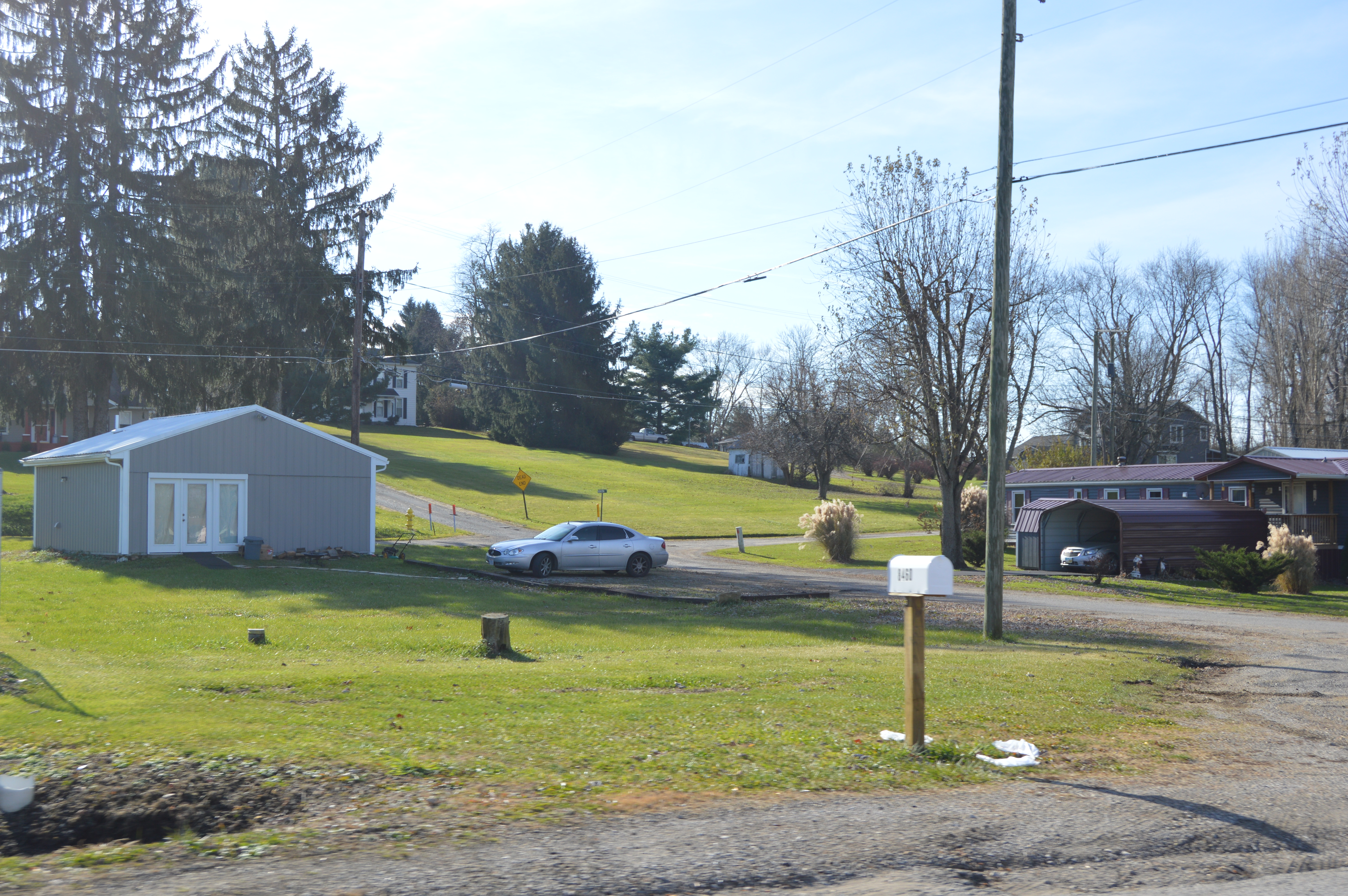 Overview of the site of the Tavener-Sears Tavern, which formerly sat on Main Street at Mount Sterling in Hopewell Township, Muskingum County, Ohio, United States. It was listed on the National Register of Historic Places in 1982, and despite its removal, it officially remains on the Register.